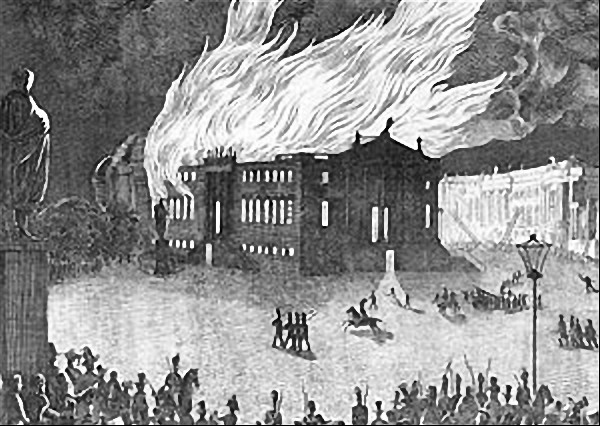 Berlin opera-house burning.